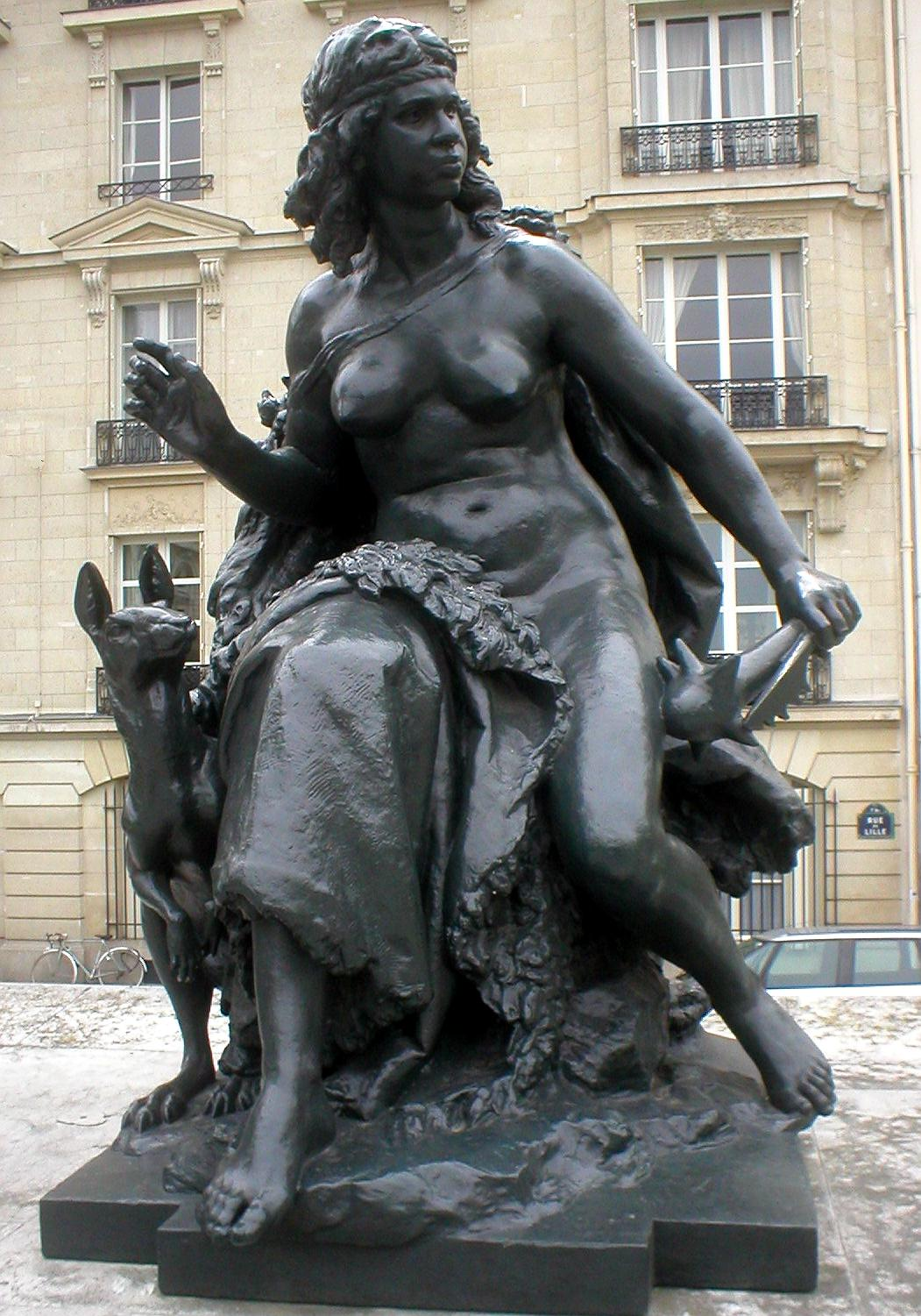 The Ocean, sculpture of iron by Mathurin Moreau